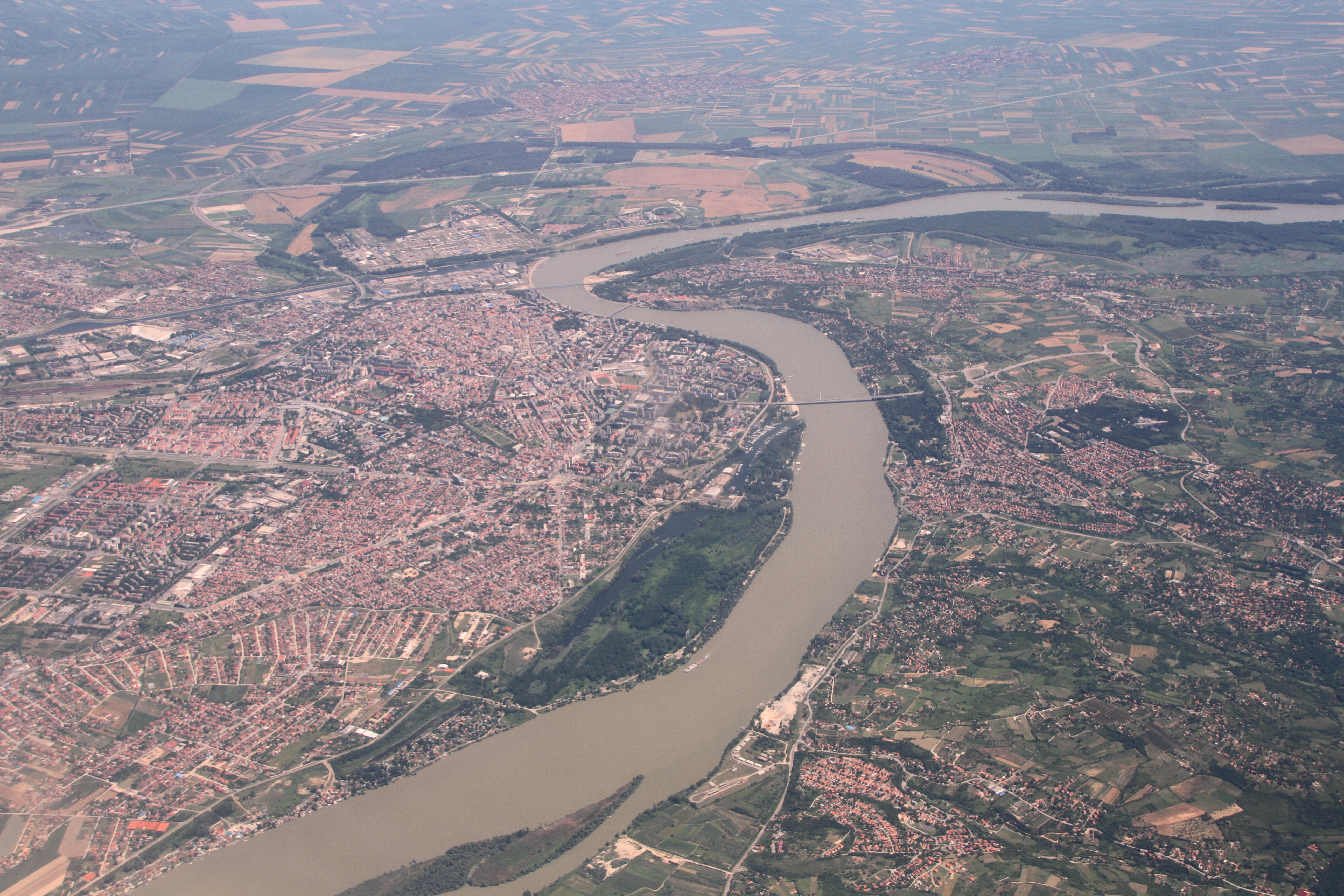 Aerial view of the city of Novi Sad, northern Serbia.